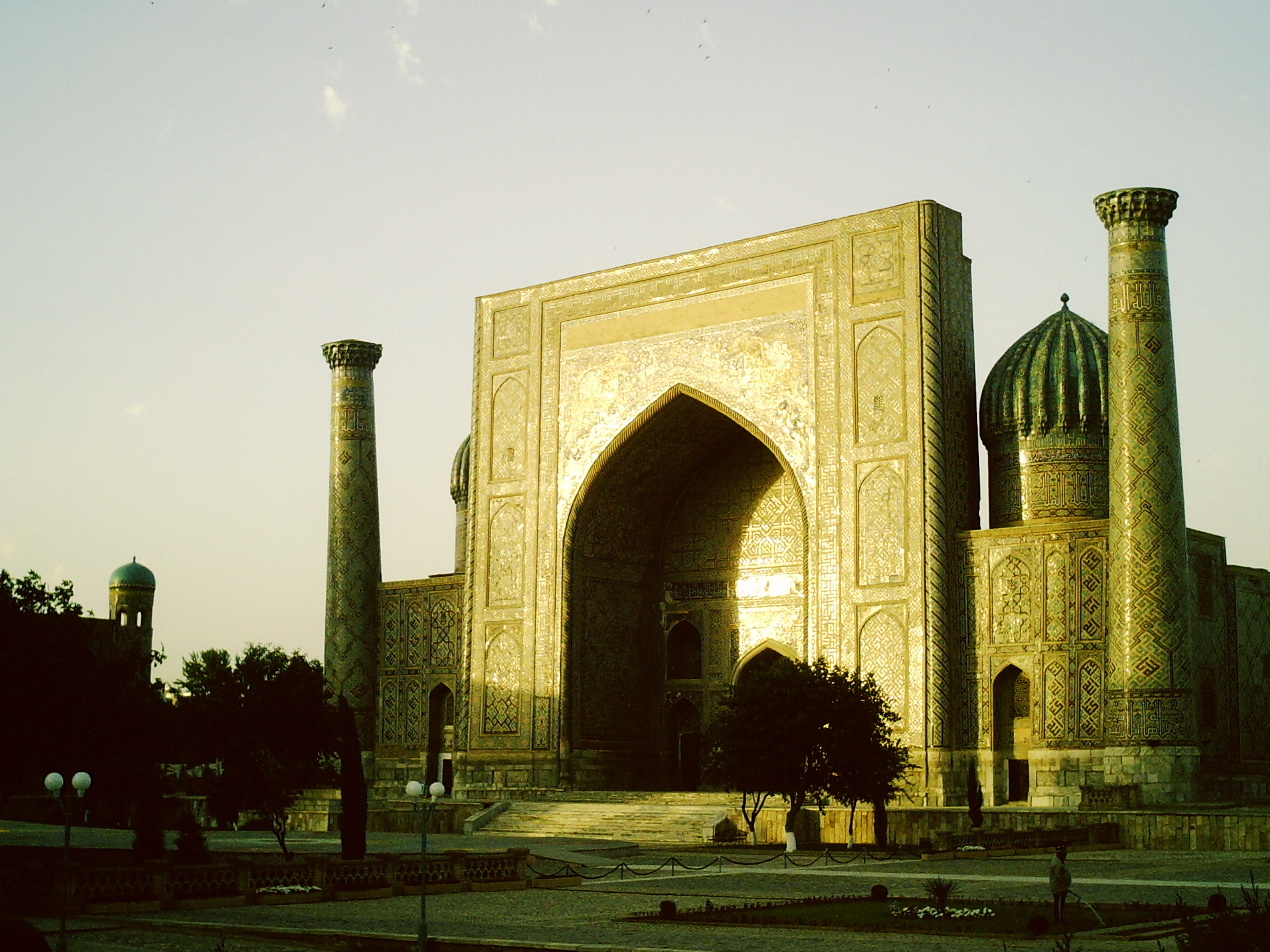 Sher-Dor-Madrassa at the Rgistan, Samarkand, Uzbekistan at sunset